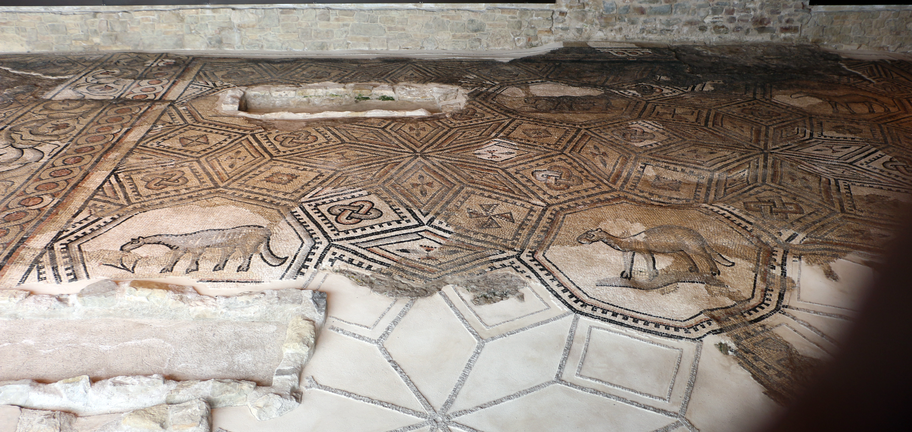 Basilica Patriarcale (Aquileia) - Baptistry